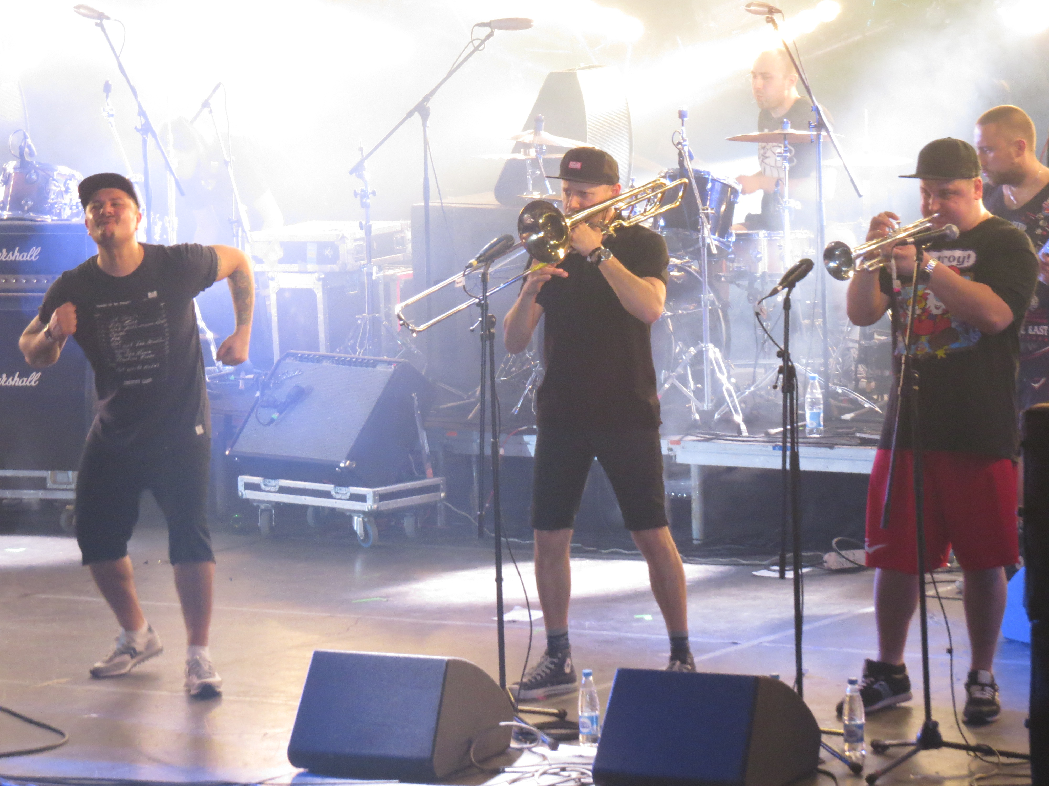 Concert "20 years of Runet" in Arena Moscow. April 7, 2014.